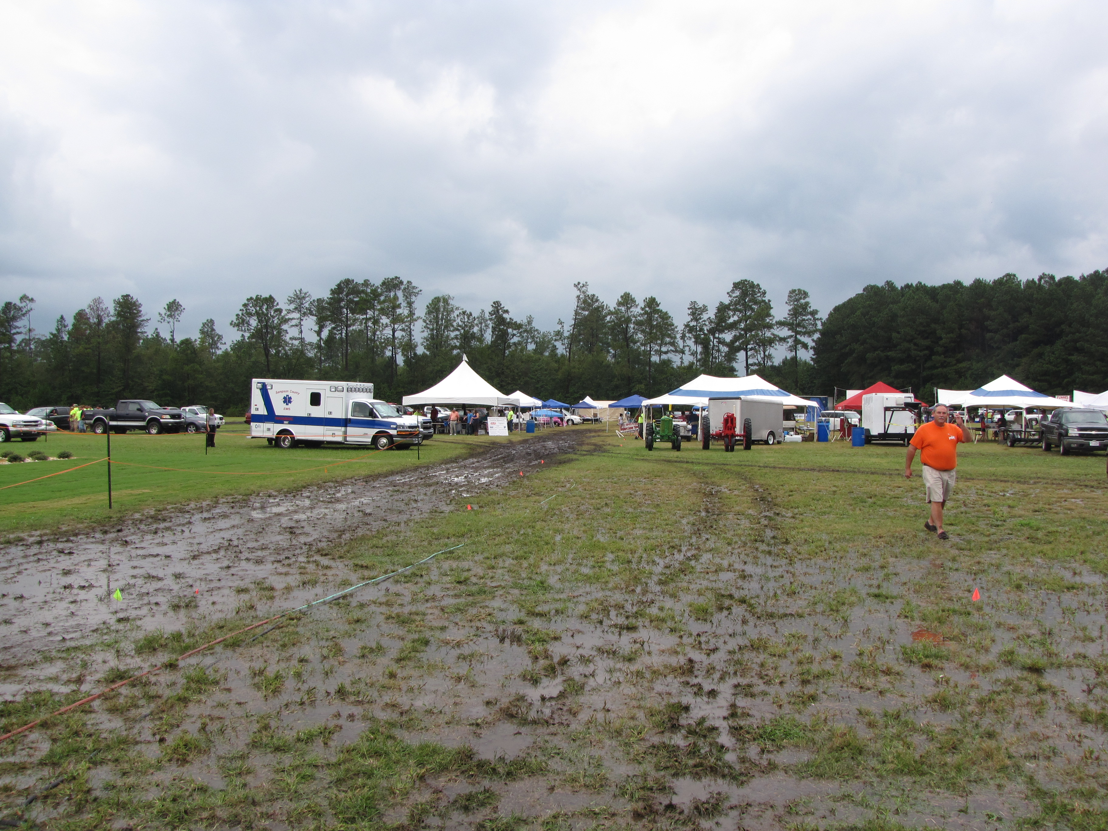 The scene of the National Hollerin' Contest in Spivey's Corner, North Carolina